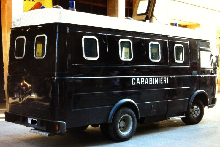 Carabinieri's Iveco OM 55 vehicle